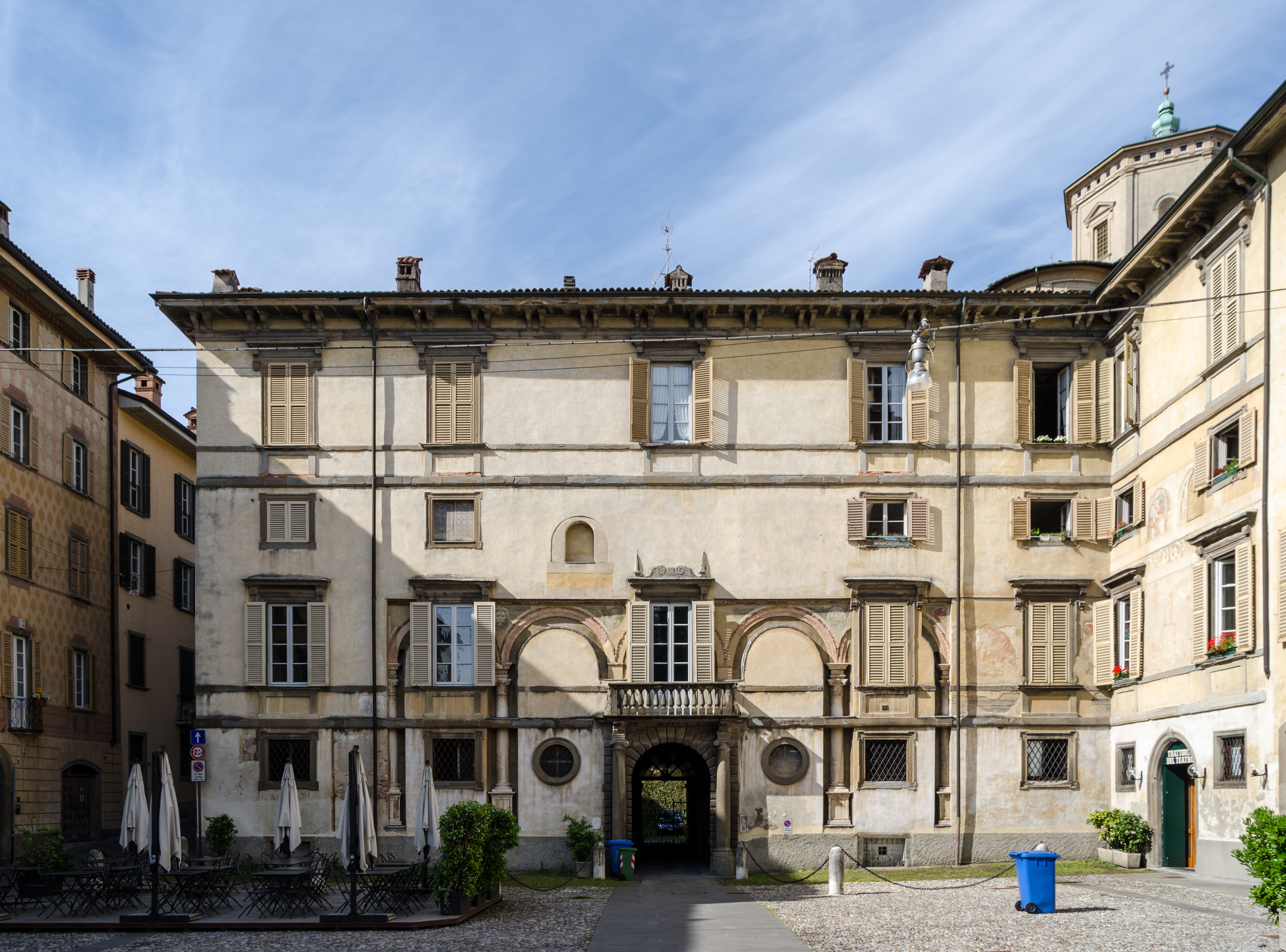 Bergamo (Lombardy, Italy) – upper city – house at Piazza Lorenzo Mascheroni next to the citadel